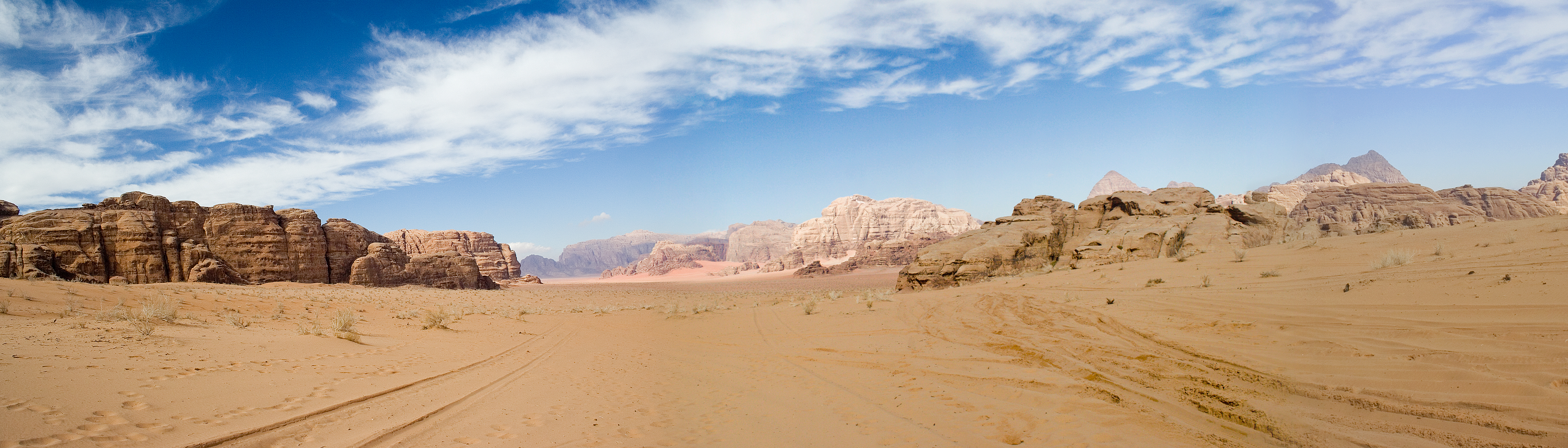 A panoramic view of Jordan's Wadi Rum.